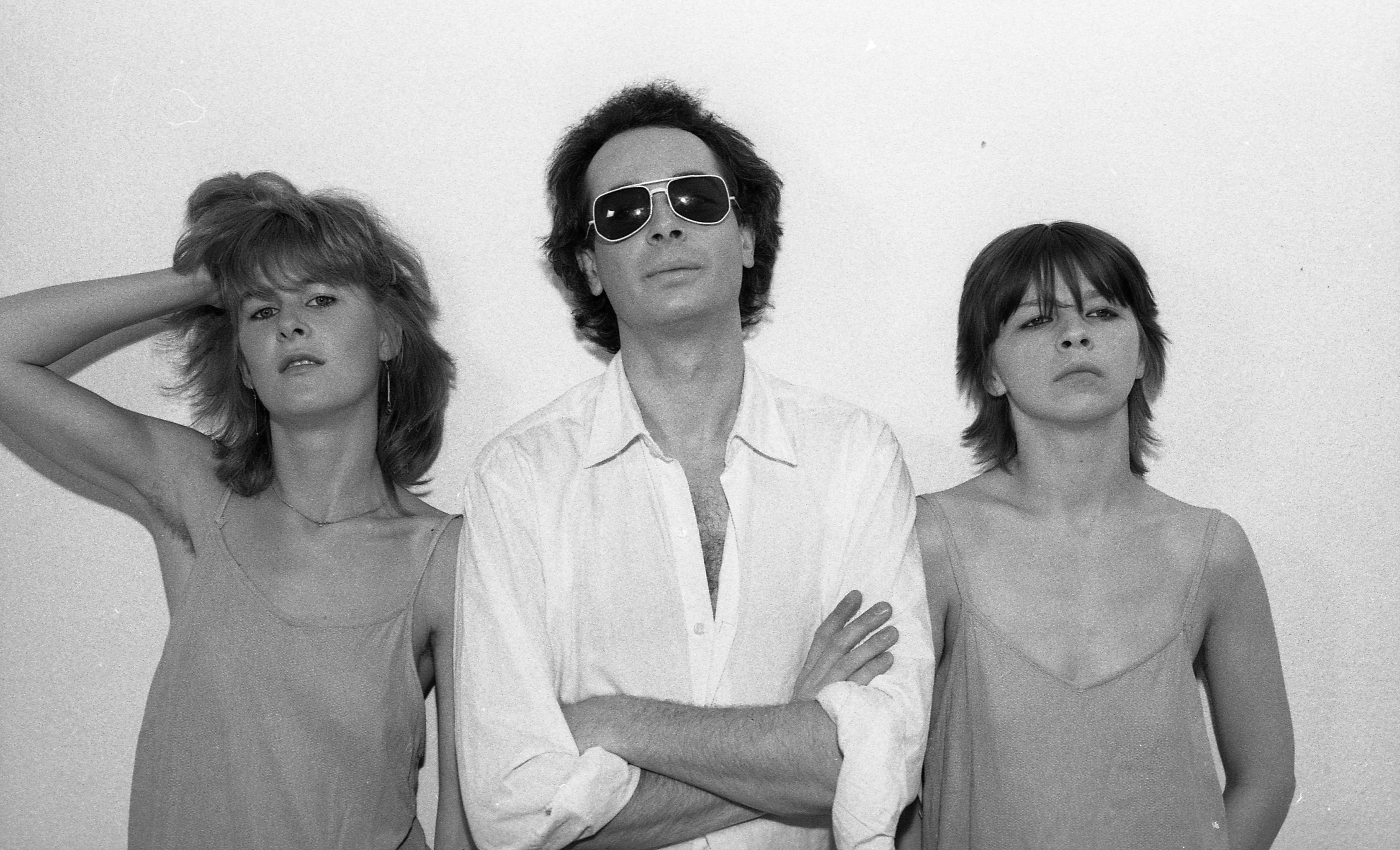 Hilde Van Roy / Walter Verdin / Dett Peyskens ©WV1982